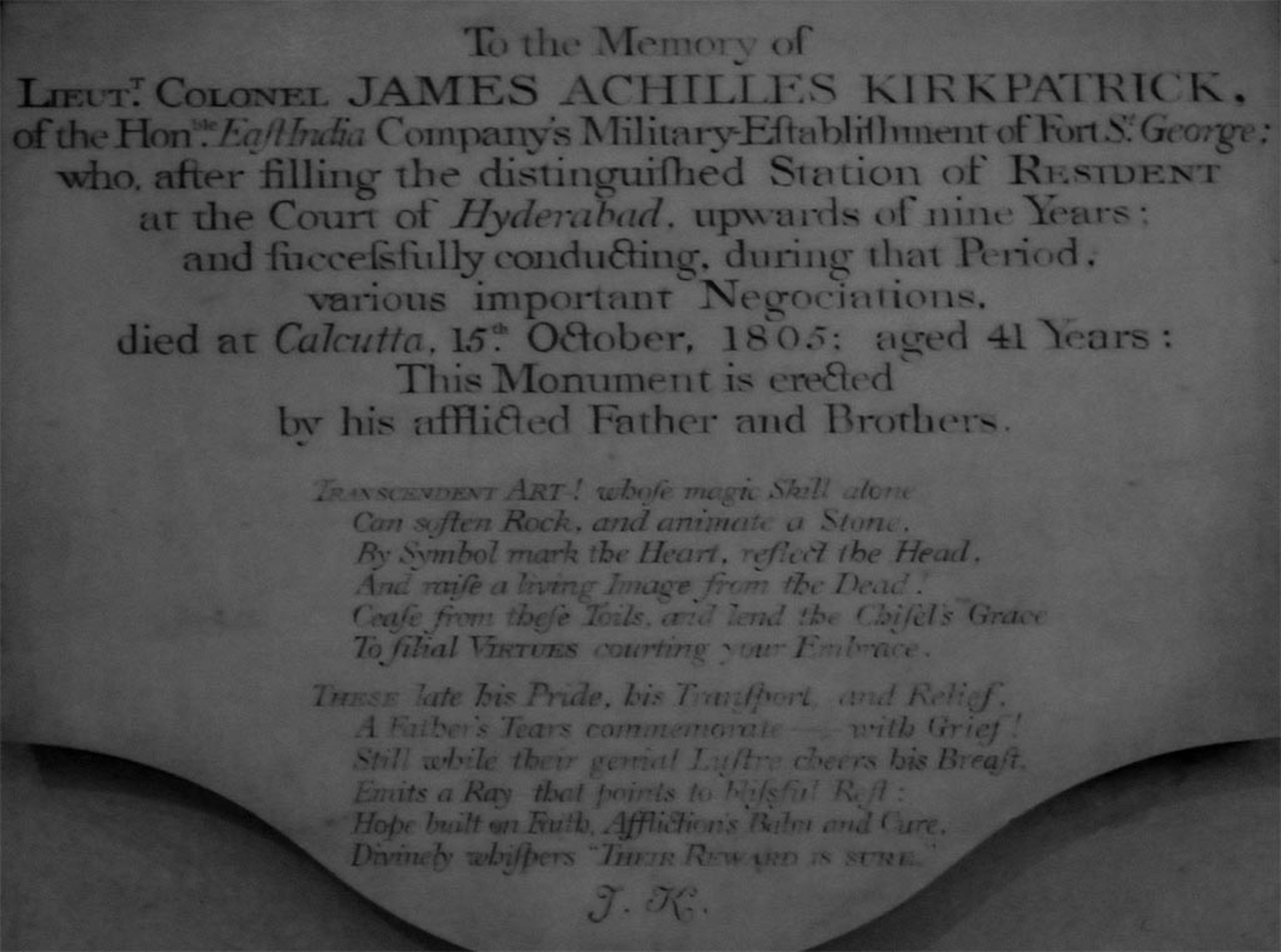 Memorial of "White Mughal"